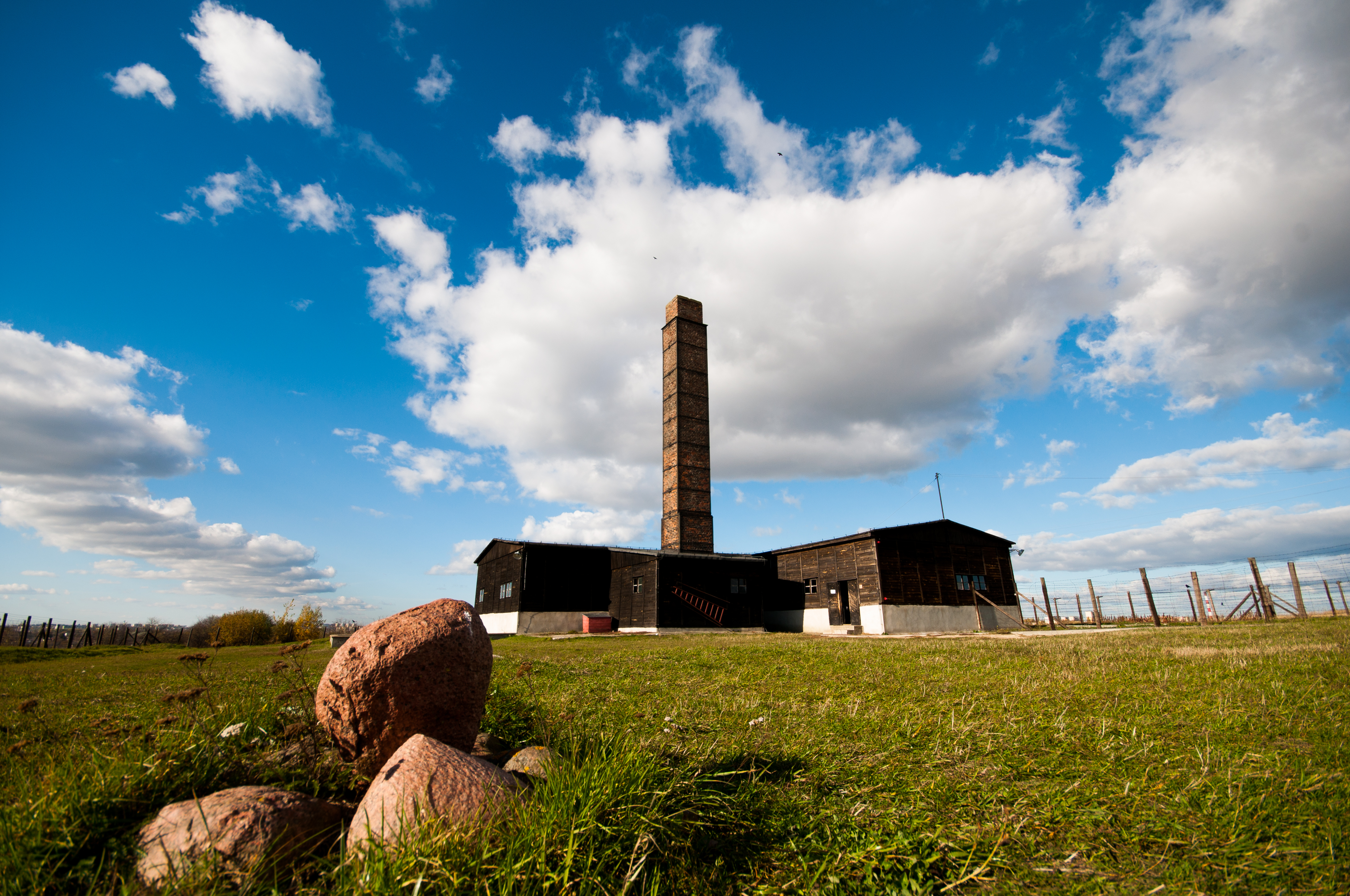 The crematorium in Majdanek concentration camp.